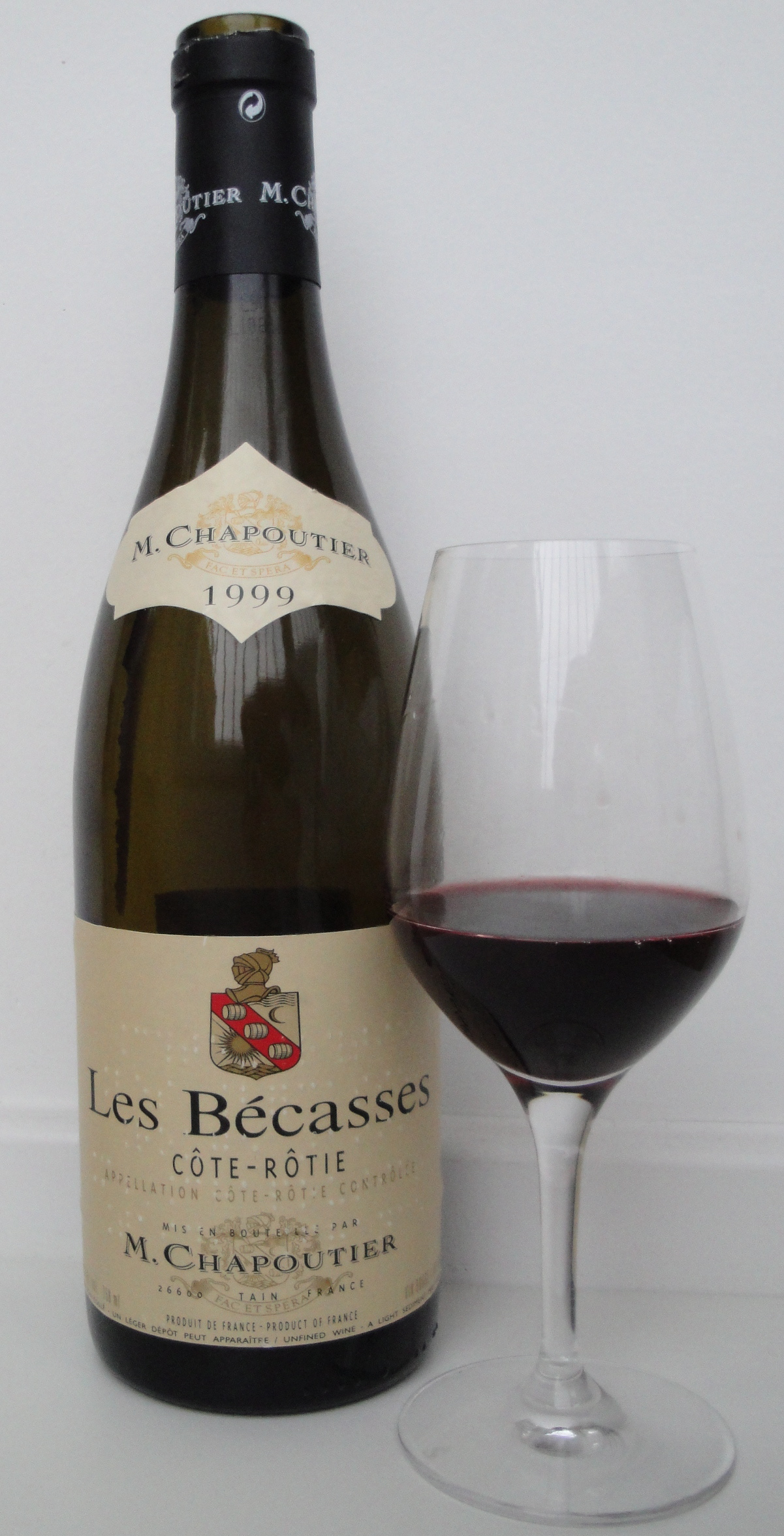 A 1999 Côte-Rôtie Les Bécasses from M. Chapoutier. Côte-Rôtie is an appellation of northern Rhône.